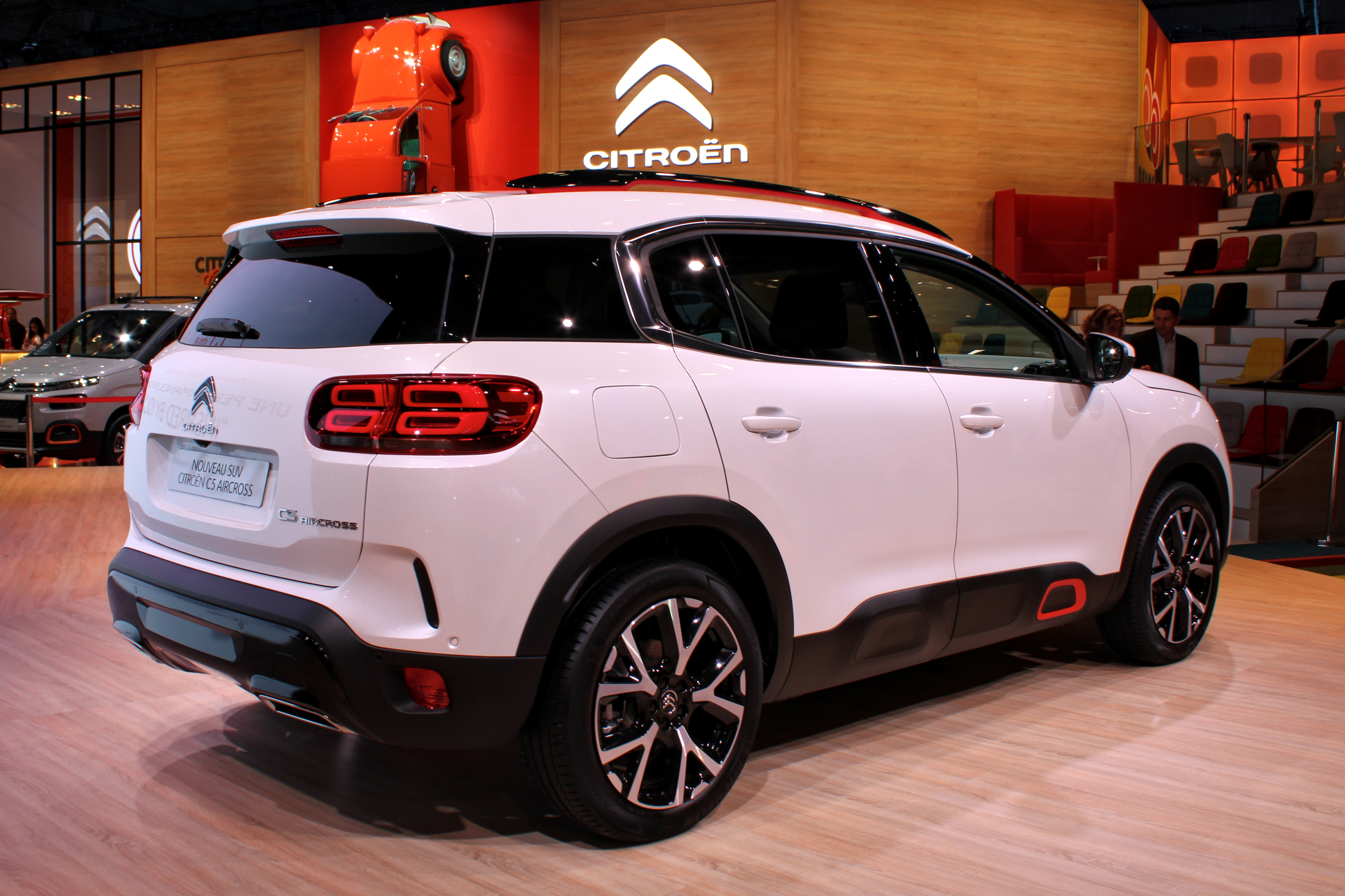 Citroen C5 Aircross at Paris Motor Show 2018